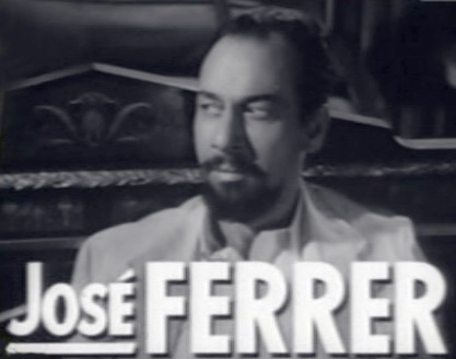 Cropped screenshot of Jose Ferrer from the trailer for the film Crisis.